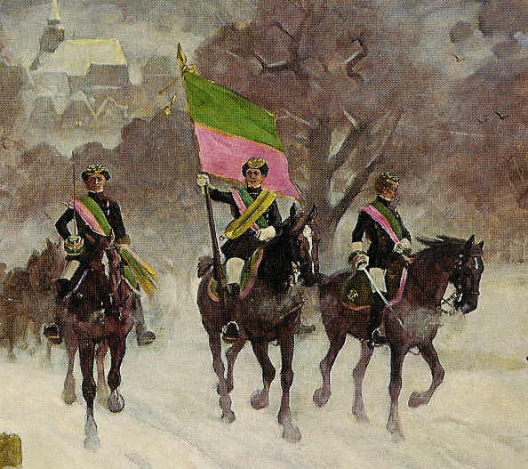 Winter excursion of Corps Franconia Tübingen, oil painting hanging in the dining room of the corps house, Winterliche Ausfahrt der Tübinger Franken, Ölgemälde im Speisesaal des Corpshauses